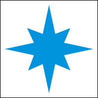 Flag of Kihnu Commune